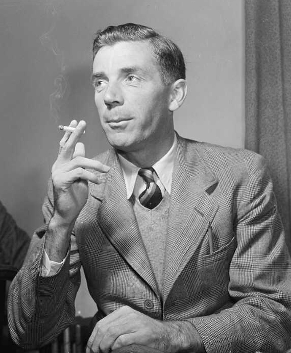 Doug Wright, member of the touring English cricket team, photographed circa 5 April 1951 by an Evening Post photographer.